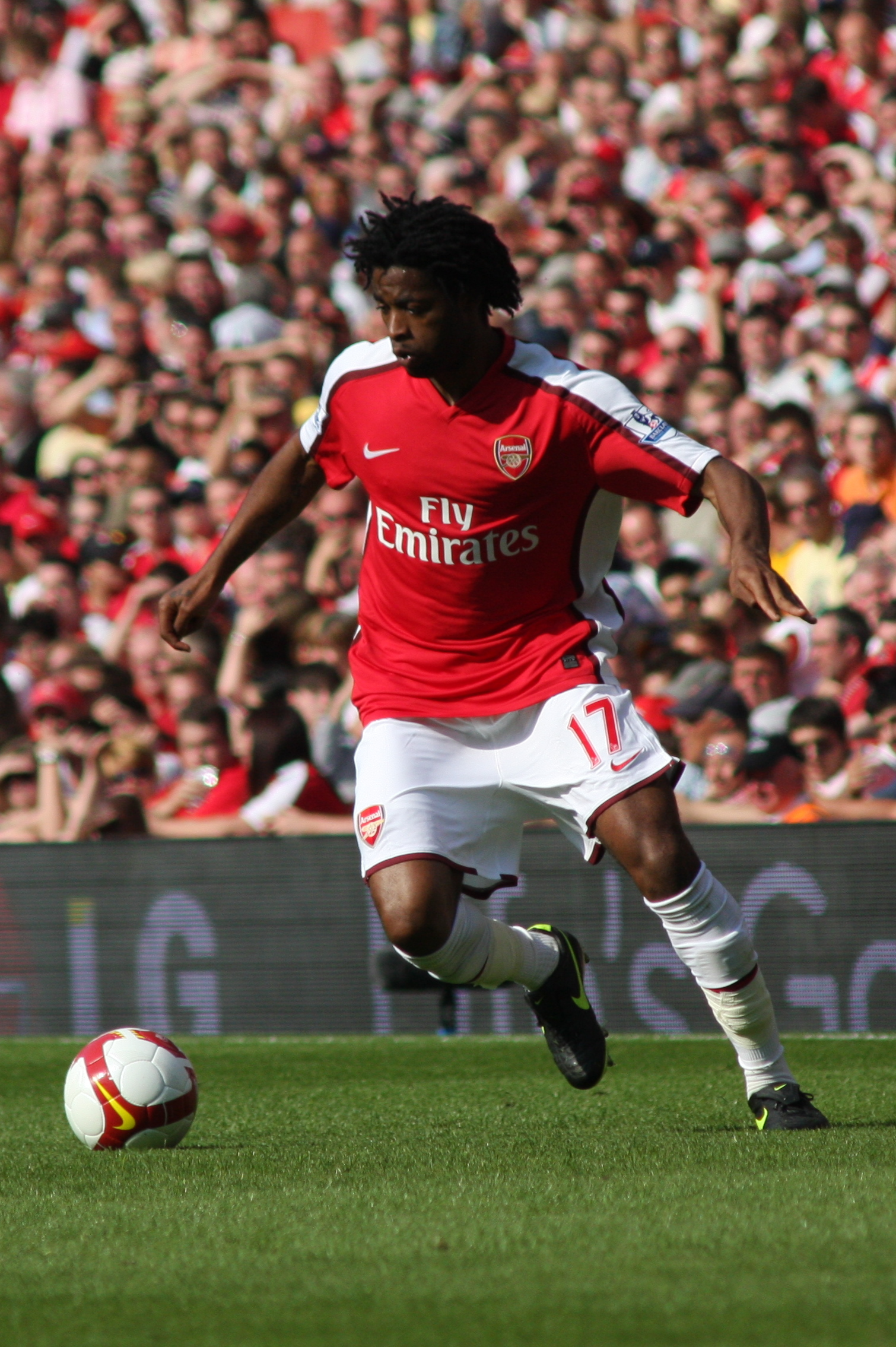 Cameroonian football player Alexandre Song while playing for Arsenal F.C.